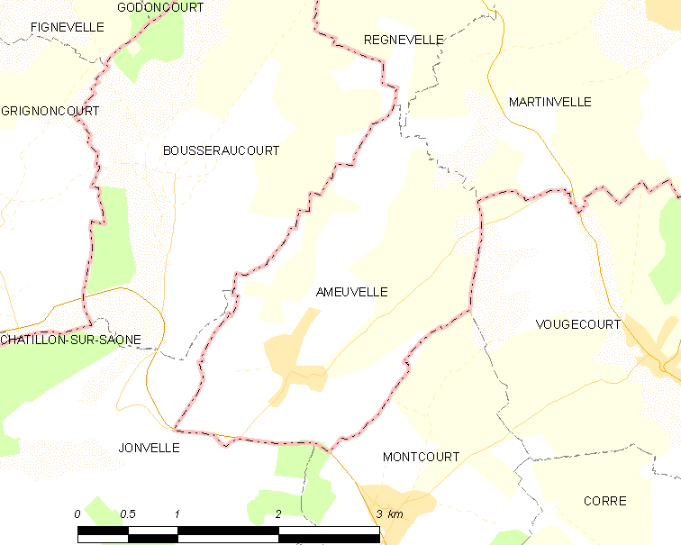 Map of French municipality Ameuvelle